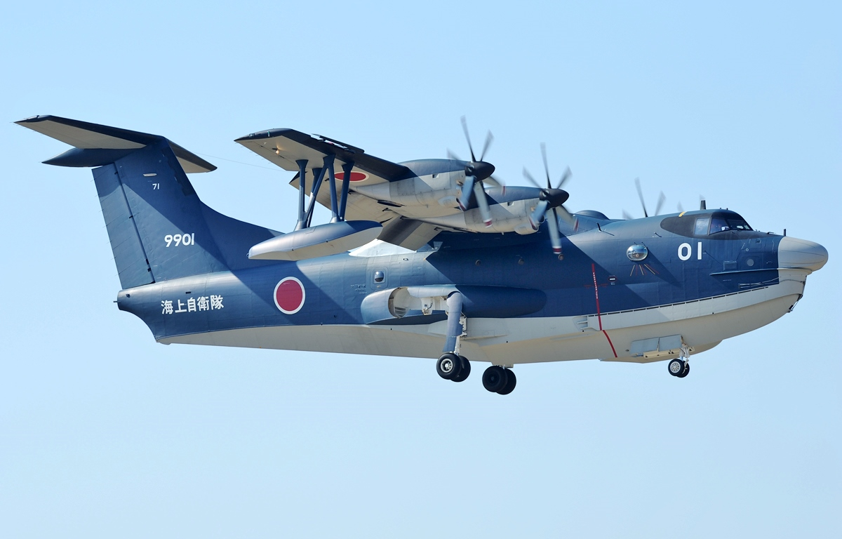 ShinMaywa US-2 at Atsugi